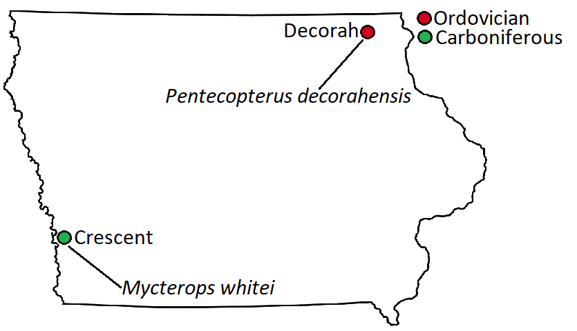 Discovery sites of the Iowan eurypterids Used images: For the map of Iowa